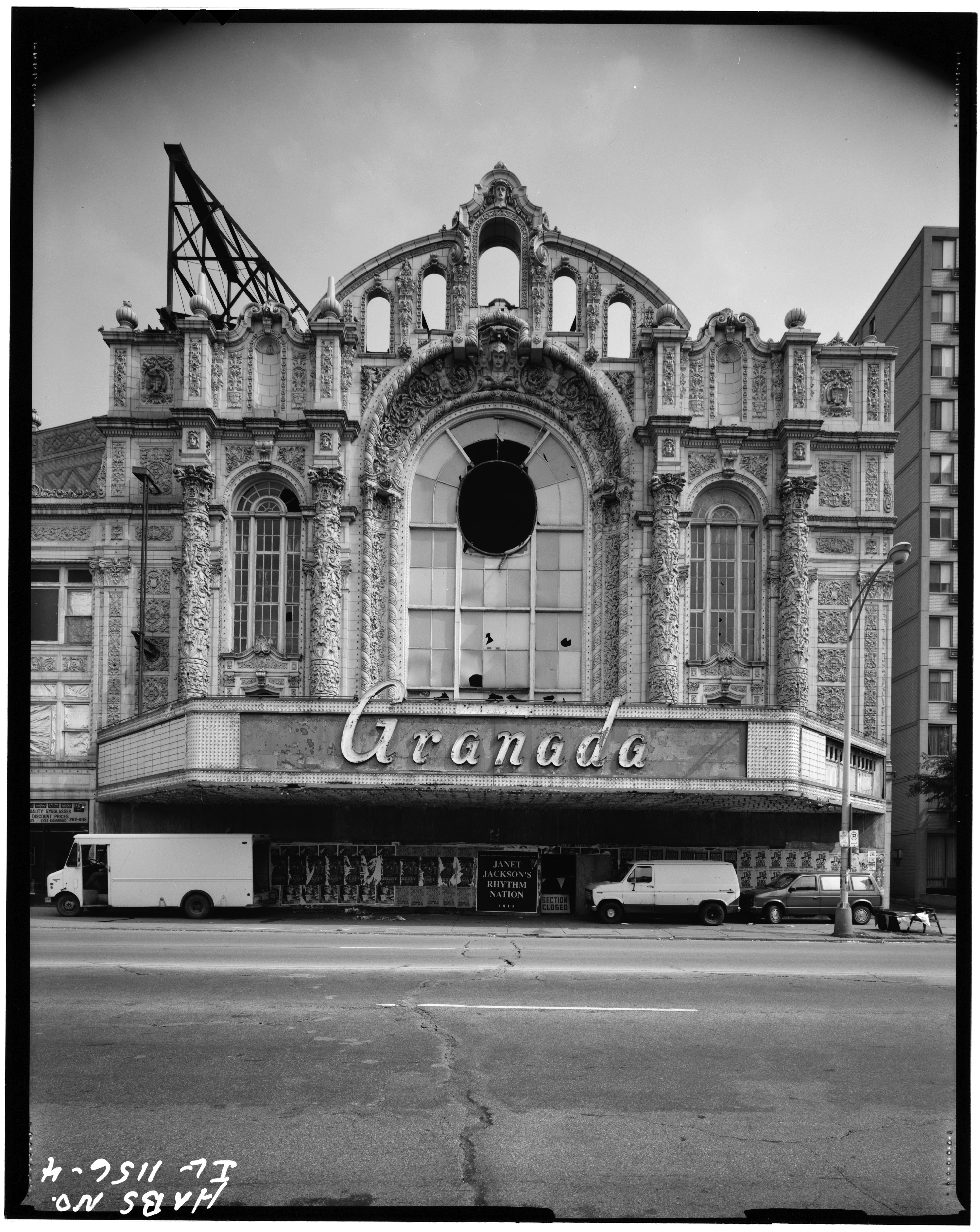 Granada Theatre (demolished) formerly at 6425-6441 North Sheridan Road, Chicago, IL Built 1926, demolished 1990. Architects: Levy and Klein. From the Historic American Building Survey at the Library of Congress